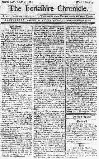 The Berkshire Chronicle; Date: 07-03-1788; (Pittsfield, Massachusetts) Further information: American Antiquarian Society. Catalog.